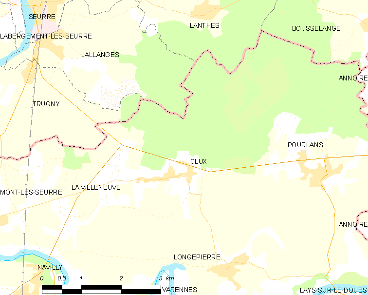 Map of French municipality